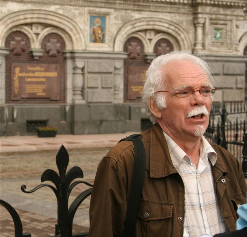 Bas van der Plas